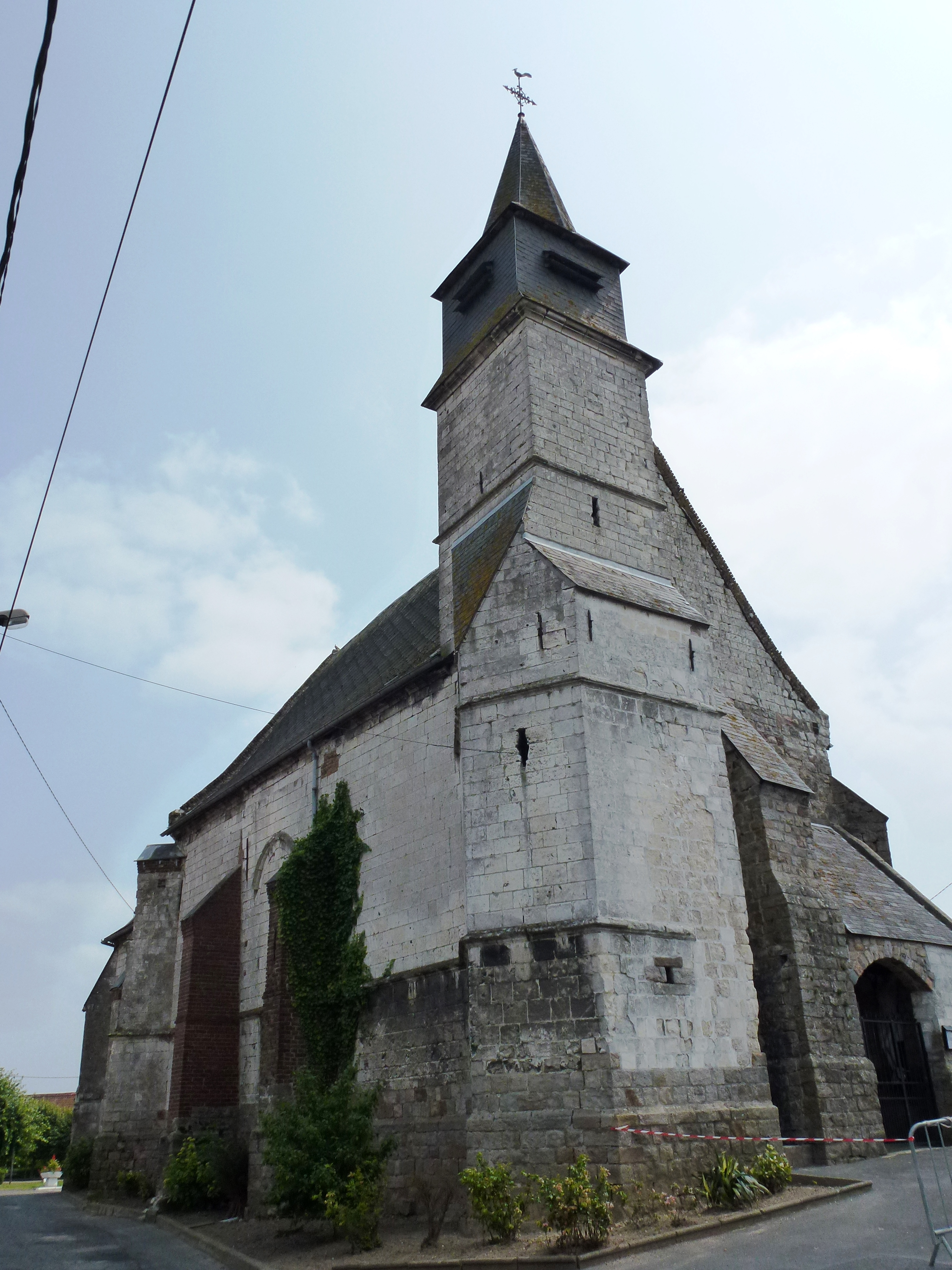 Floringhem (Pas-de-Calais, Fr) église, tour